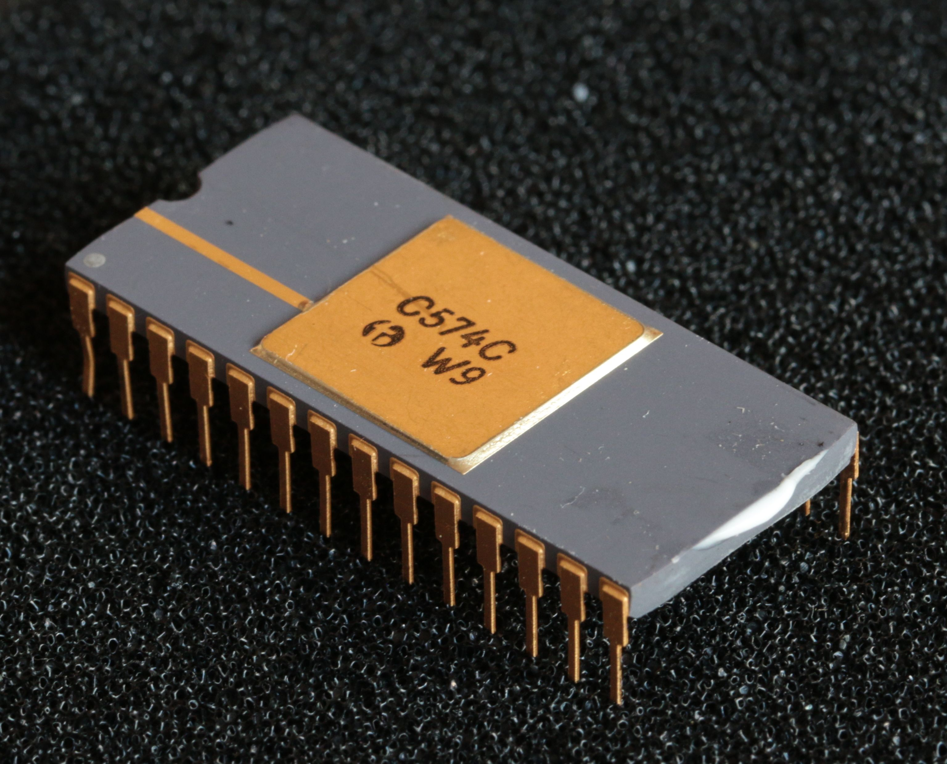 C574C — 12-bit ADC manufactured by Halbleiterwerk Frankfurt (Oder), equivalent to AD574